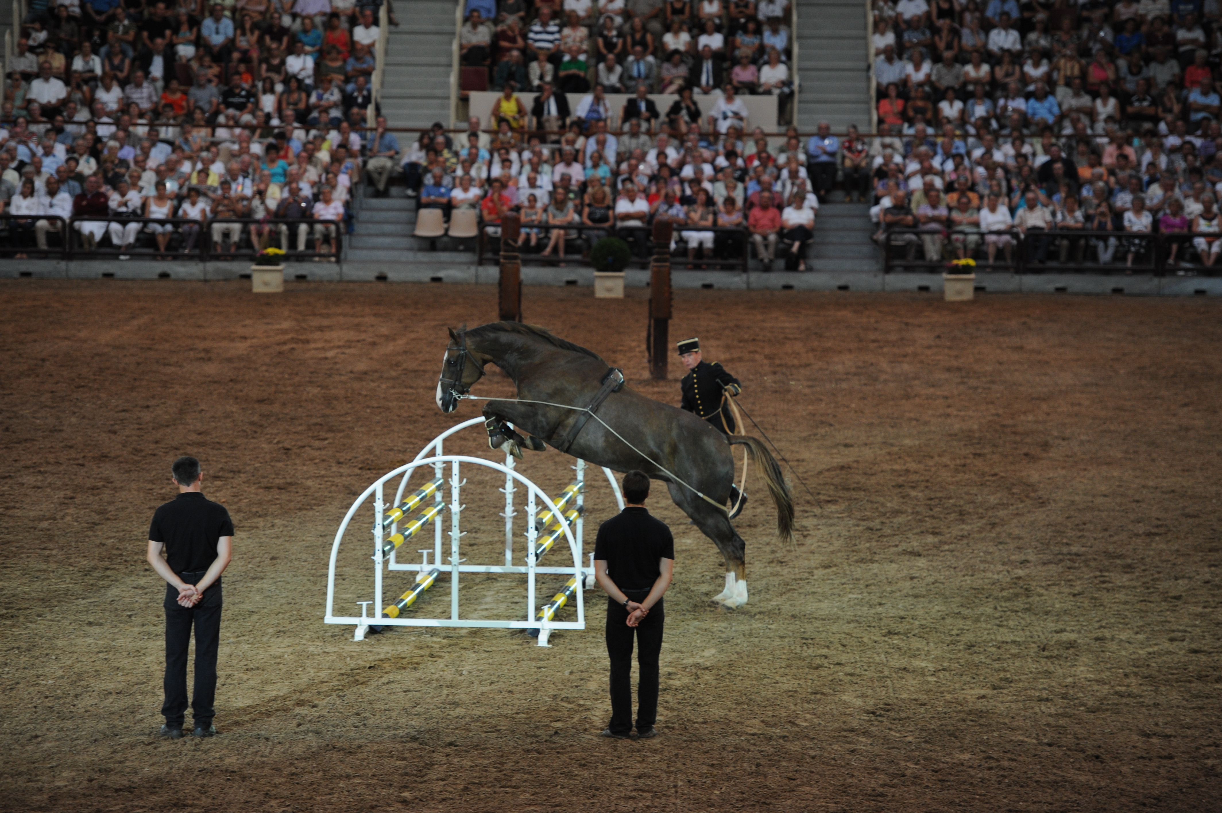 This photograph was taken by a Wikipedian, or provided by the Cadre noir, during a special day in May 2012 English | français | +/−